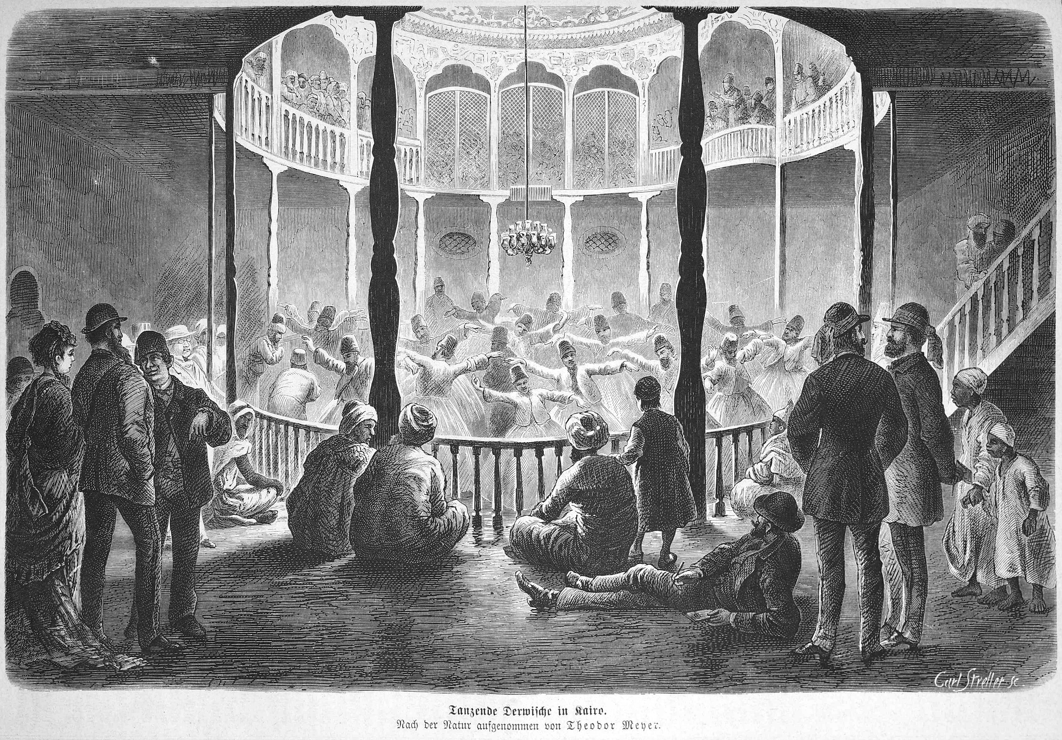 caption: "Tanzende Derwische in Kairo. Nach der Natur aufgenommen von Theodor Meyer."